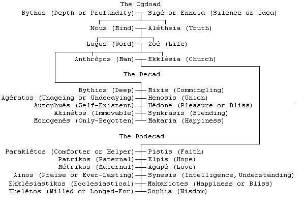 Valentinian Aeonology